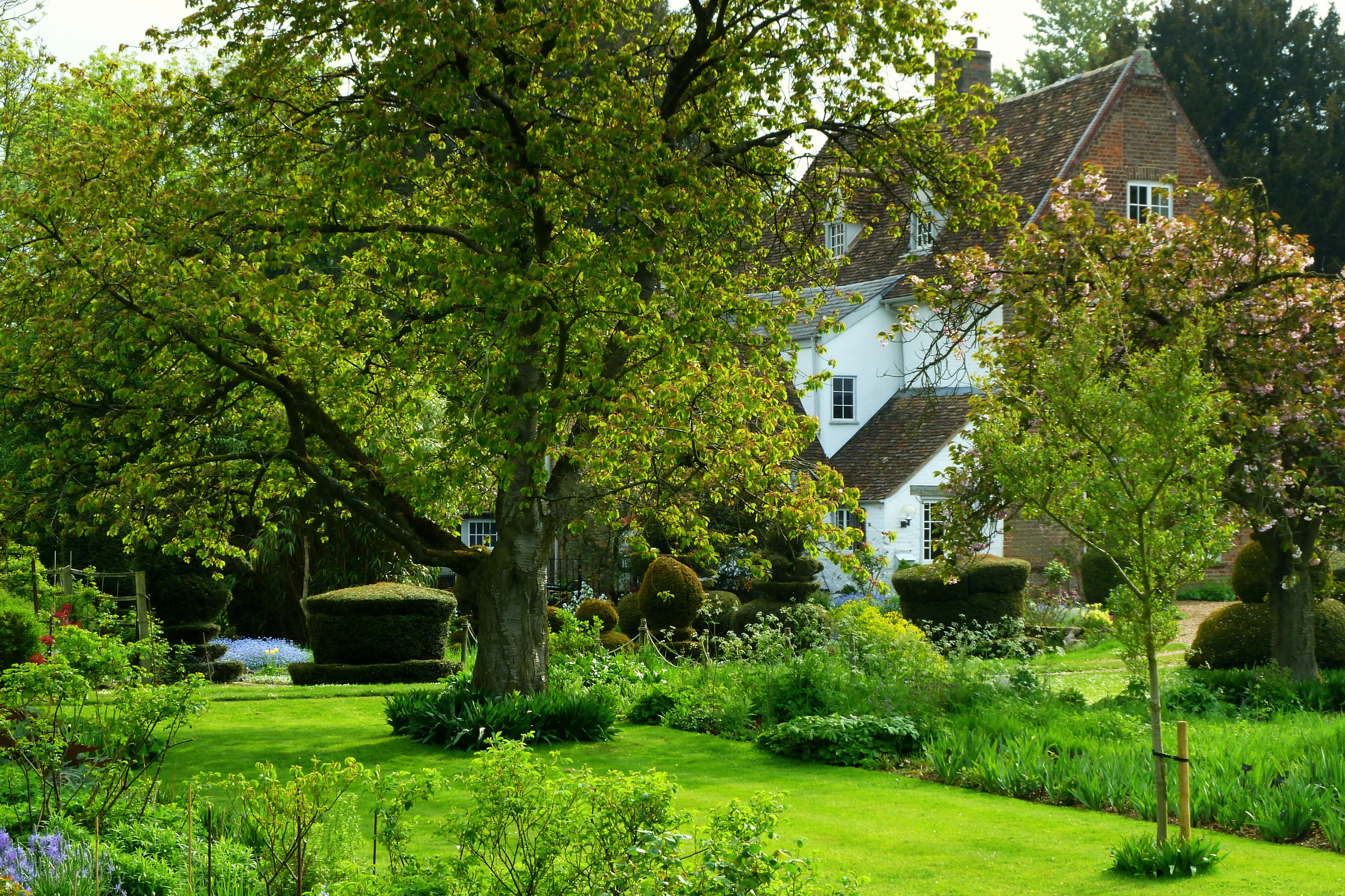 Home of Lucy Boston, author of 'The Children of Green Knowe', until her death in 1990. This house was the model for 'Green Knowe'. Dating back to the early 12th century, it is reputed to be the oldest continually inhabited house in England.